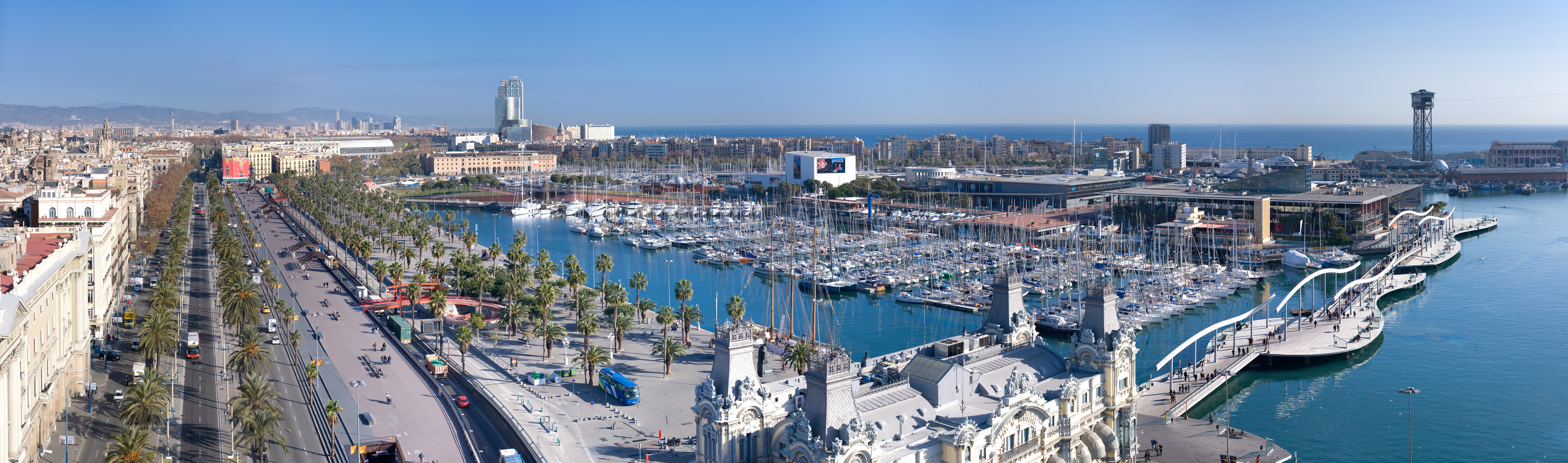 An aerial panoramic view from the the Columbus Monument (Monument a Colom in Catalan) across Port Vell in Barcelona, Spain